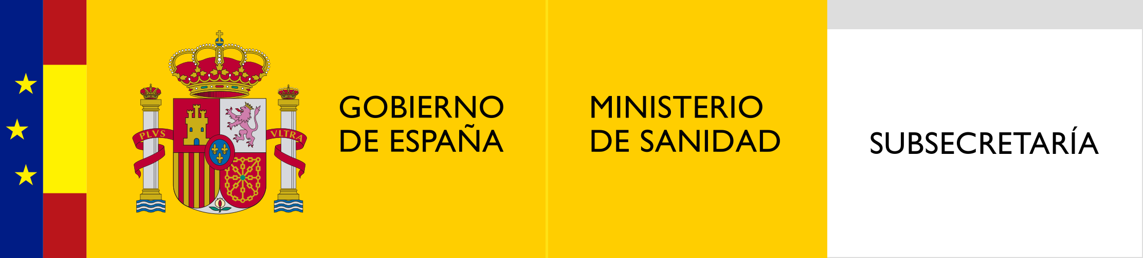 Logo of the Undersecretariat of Health of Spain.